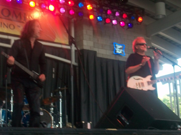 Wang Chung at Summerfest 2010